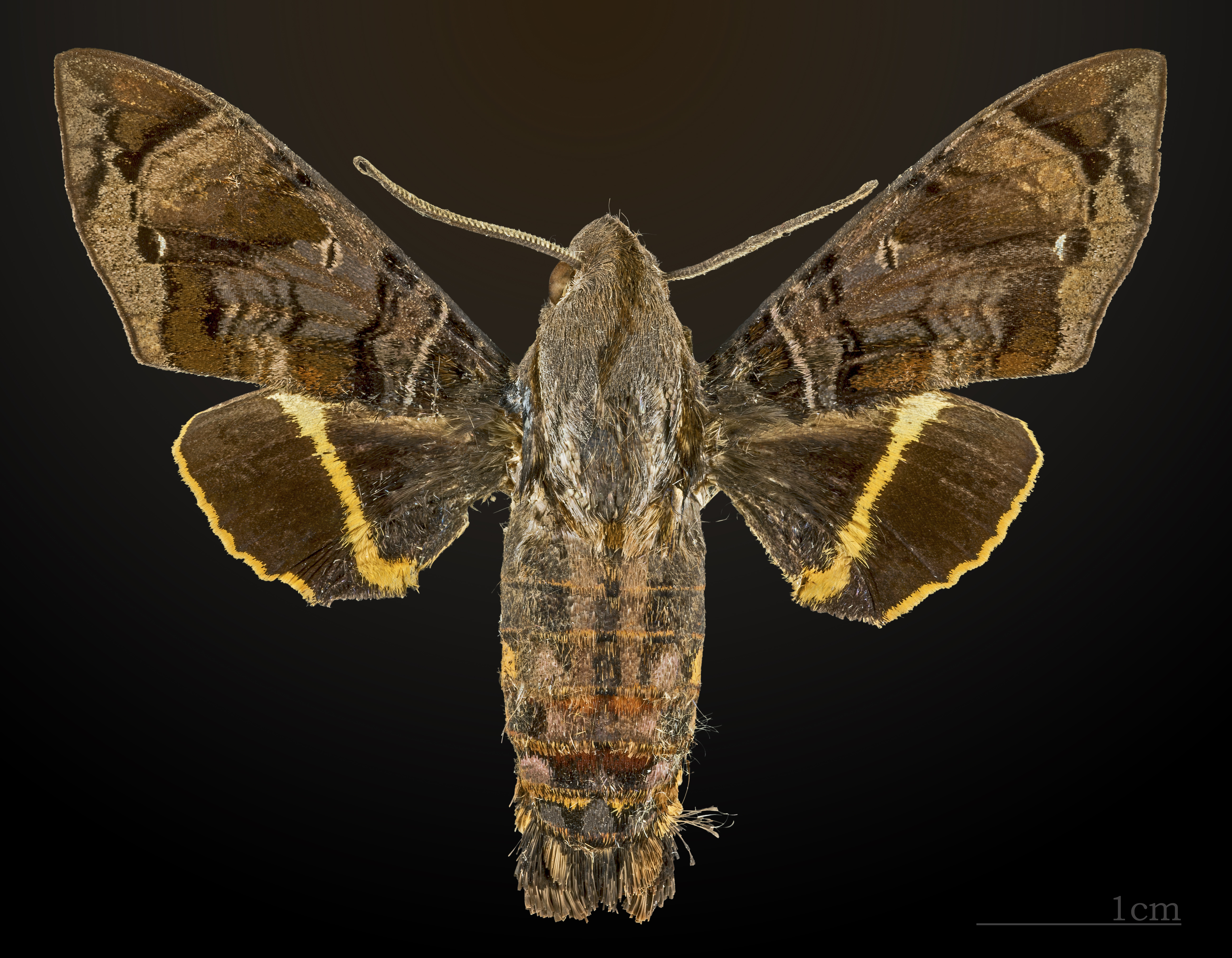 Cuban Sphinx - Dorsal side Collection of the Mathematician Laurent Schwartz